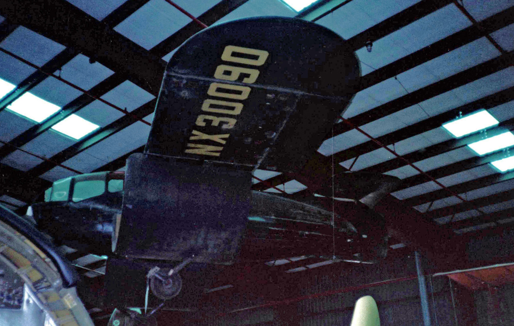 The Custer CCW-1 Channel Wing prototype aircraft at the National Air and Space Museum storage Center at Silver Hill, Maryland